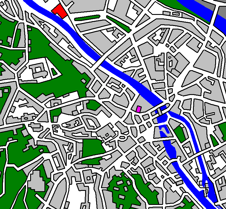 map of Bamberg in Franconia, Germany